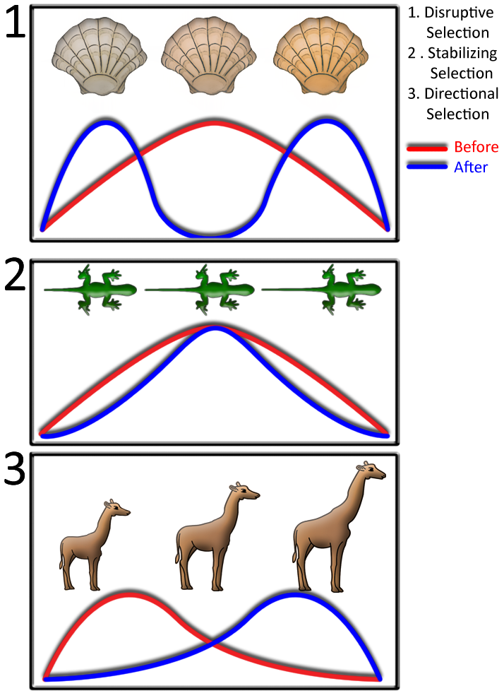 A chart showing three types of selection.